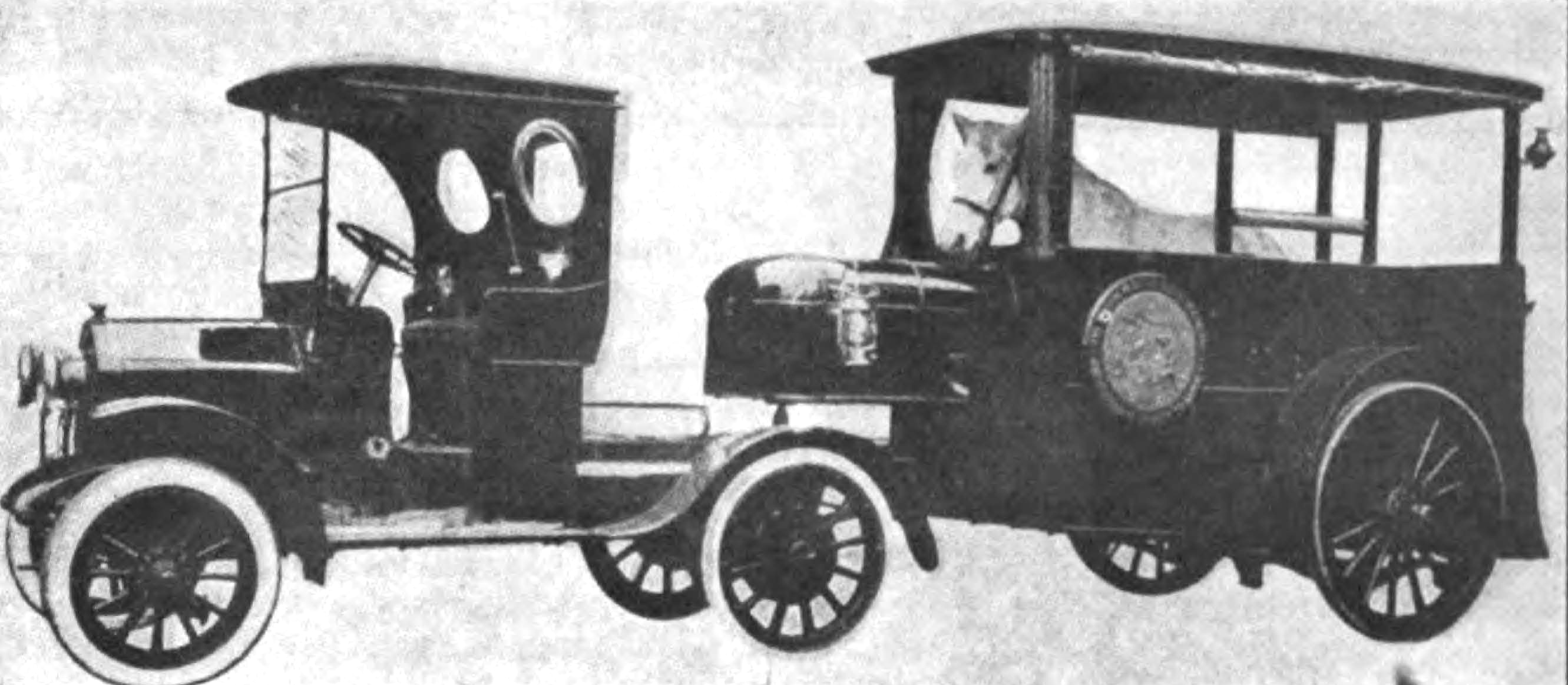 Horse Ambulance commissioned from the Garford Truck factory by the Monahan Vehicle Company, Providence, R. I. for Mrs. David Nevins, Methuen, Mass. as a gift for the Massachusetts S. P. C. A. in 1916.